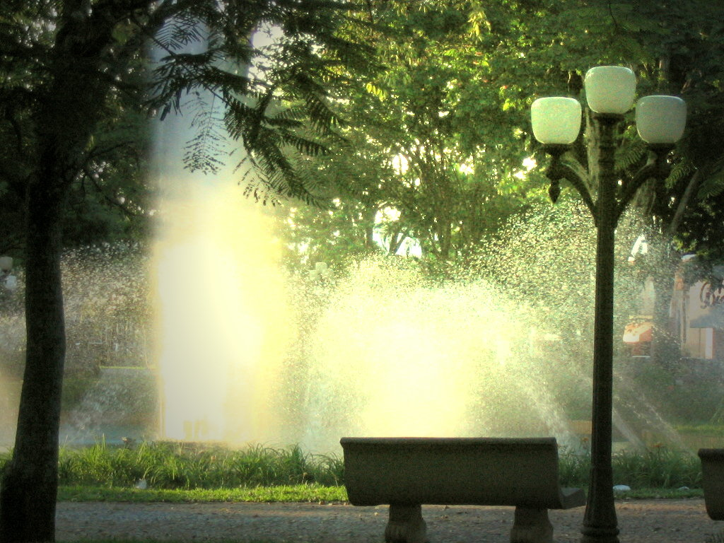 Barão de Araras Square